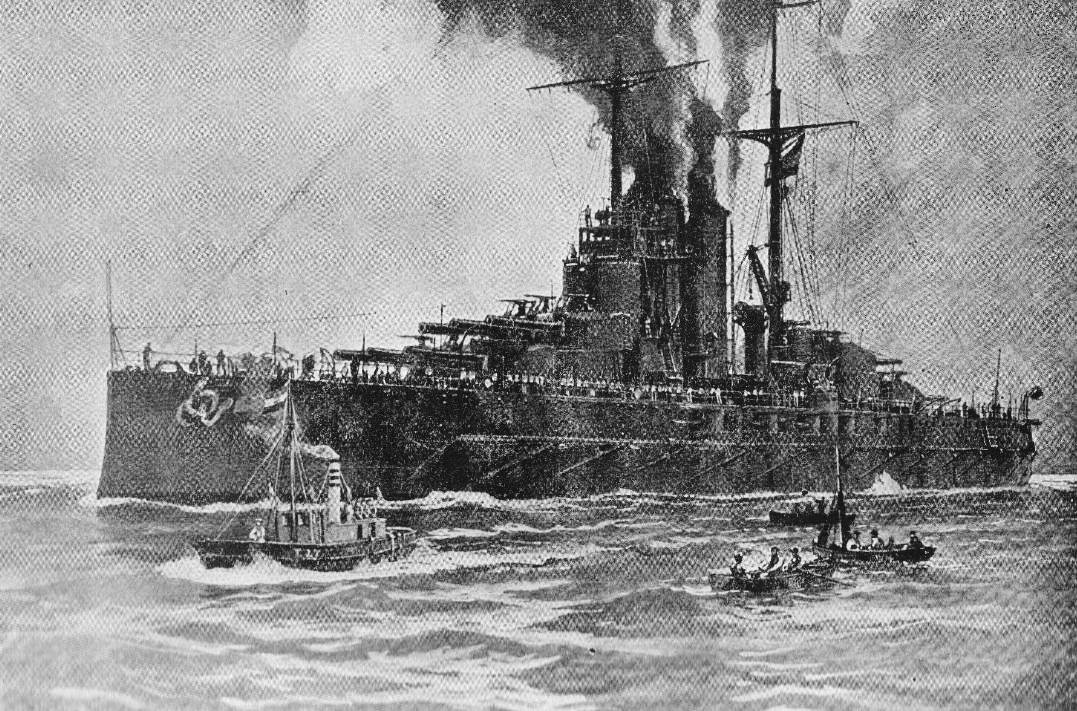 Illustration of the Austro-Hungarian battleship Viribus Unitis